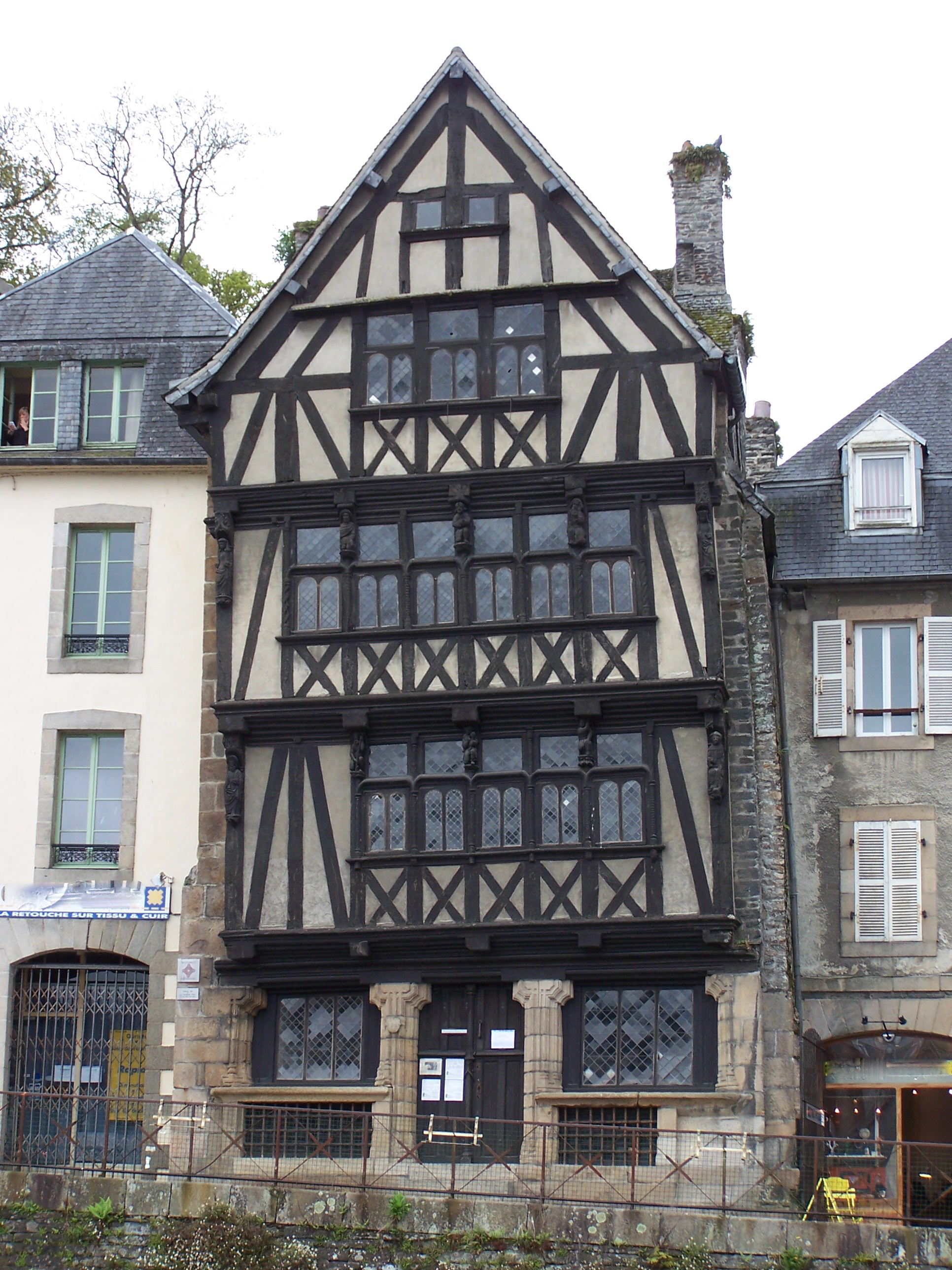 Maison de la duchesse Anne, rue du Mur à Morlaix